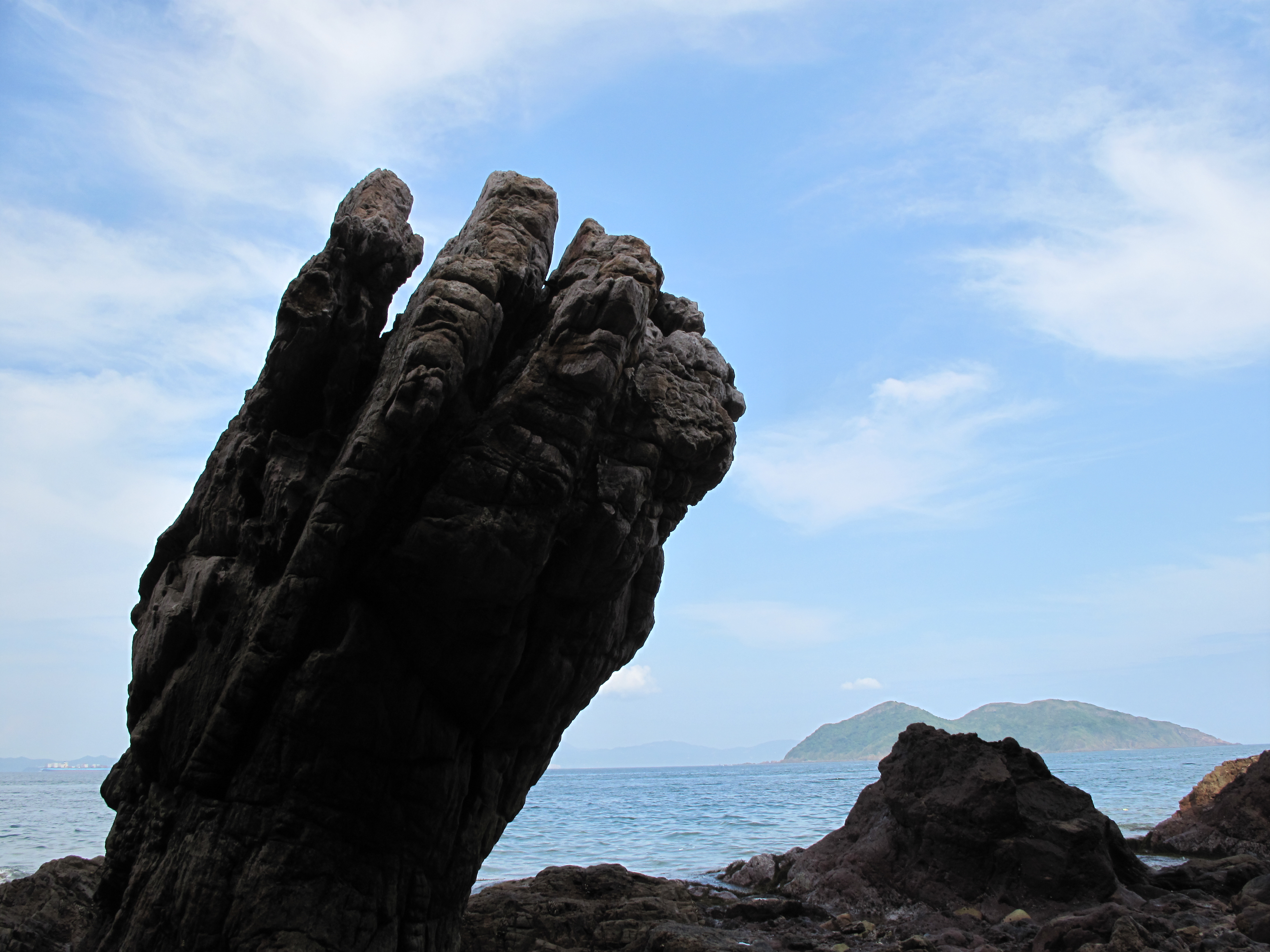 Photo of Devil's Fist, Wong Chuk Kok Tsui, with Port Island in the background.